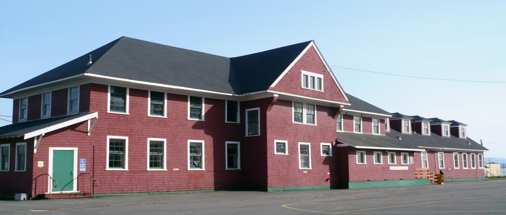 Samoa Cookhouse built in 1893, in Samoa, California is the last surviving lumber camp-style cookhouse in the West.